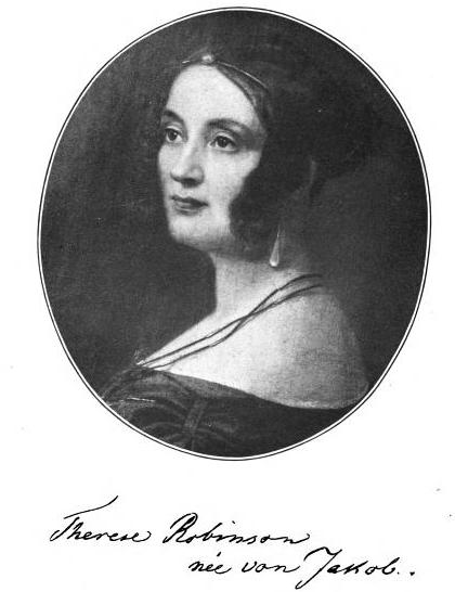 Portrait of Talvj (pseudonym of Terese Albertine Luise Robinson d. 1870), photograph provided to biographer by grandson Edward Robinson